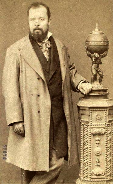 Picture of the Italian egyptologist Federico Bonola